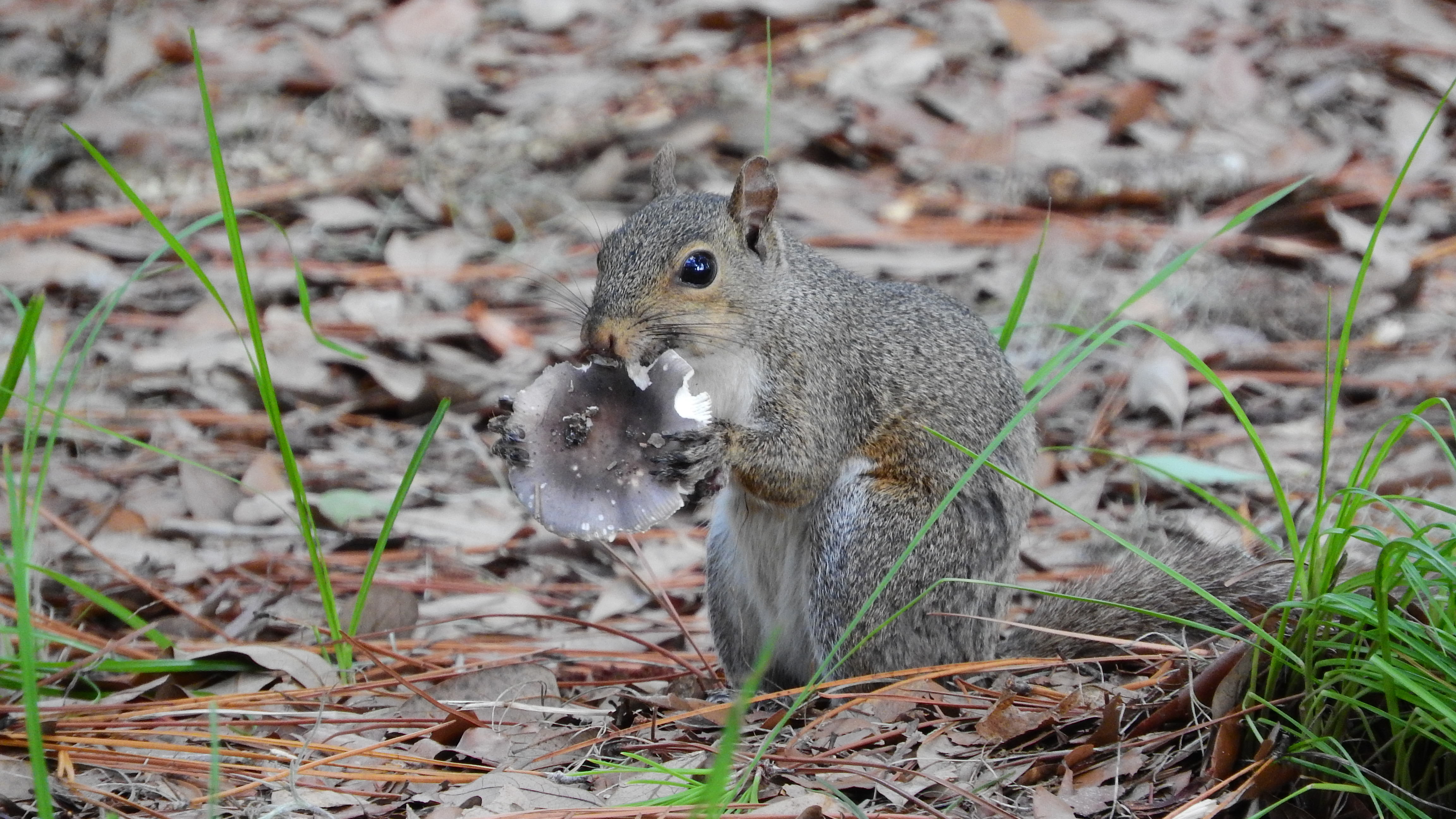 Sciurus carolinensis in Florida at Okefenokee swamp park eating a mushroom, summer, 2016